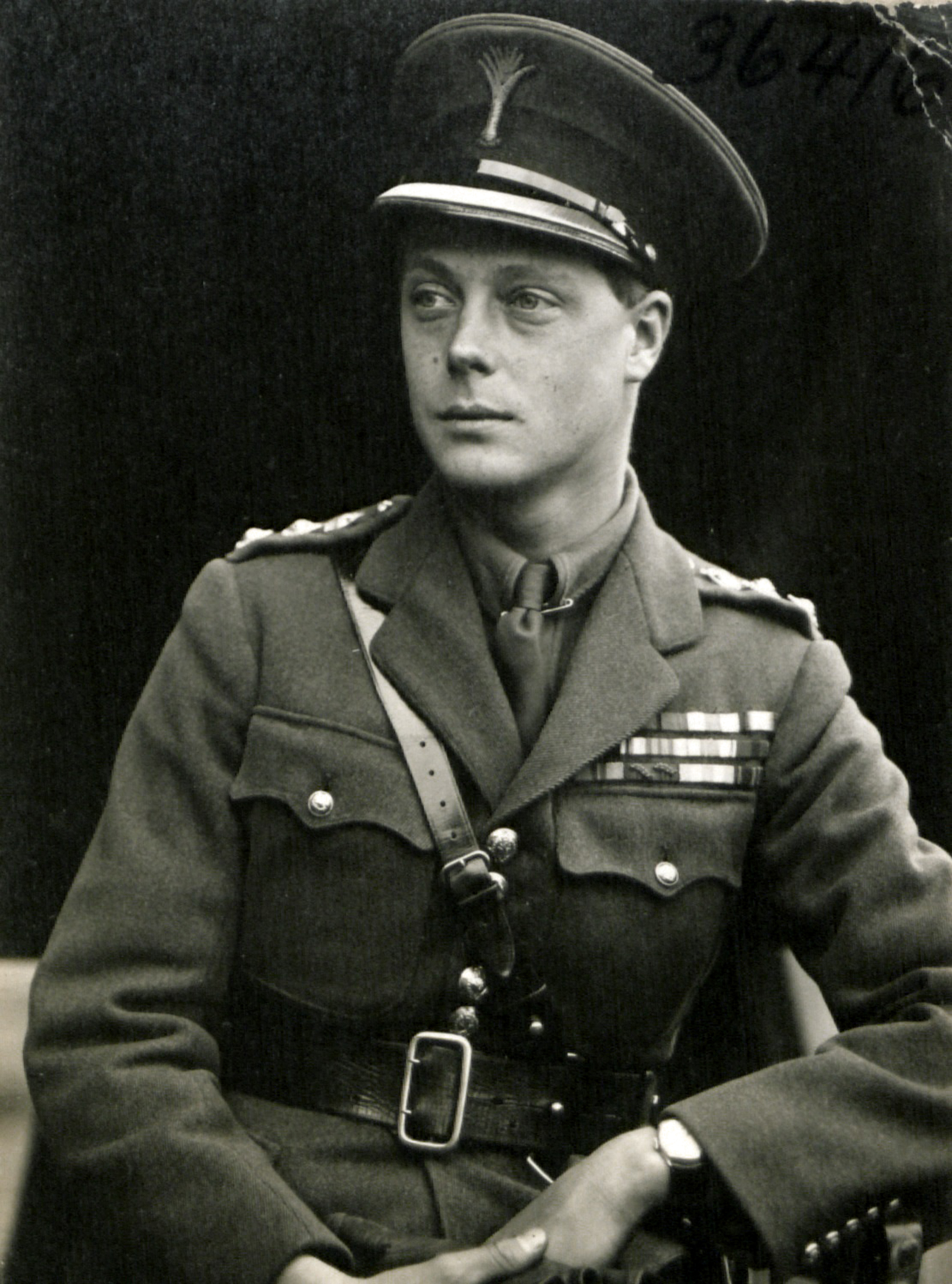 Original caption: "H.R.H. The Prince of Wales. No. 4."